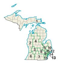 Image adapted from US fed gov't source Category:Congressional districts of Michigan